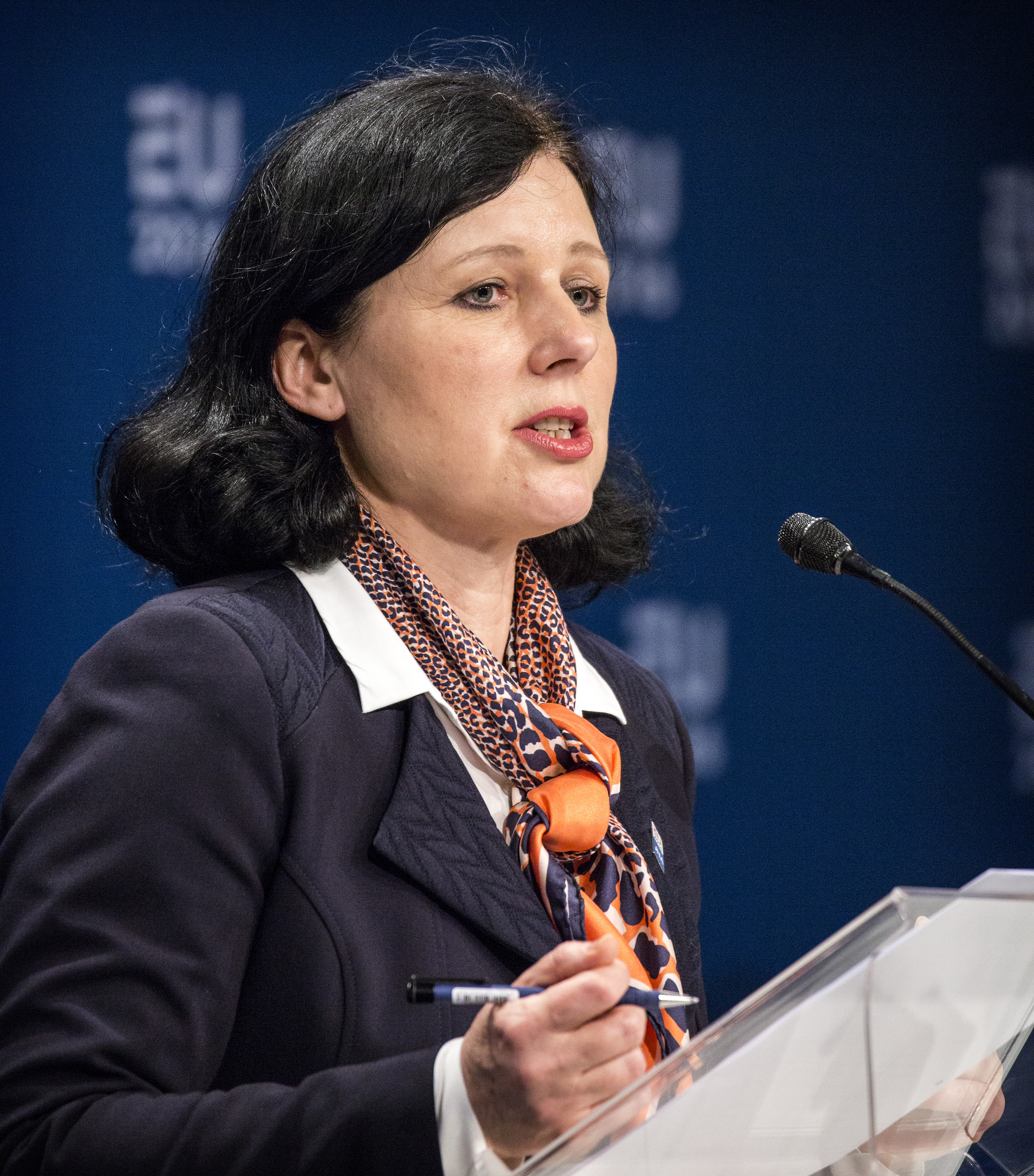 26 januari 2016 / Amsterdam, January 26th 2016. Persconferentie NL Presidency, Ard van der Steur en de EU commissaris Justitie Vera Jourova. Press conference NL Presidency, Ard van der Steur and EU Commissioner Vera Jourova. Foto: Rijksoverheid/Valerie Kuypers – Photograph: Dutch Government/Valerie Kuypers